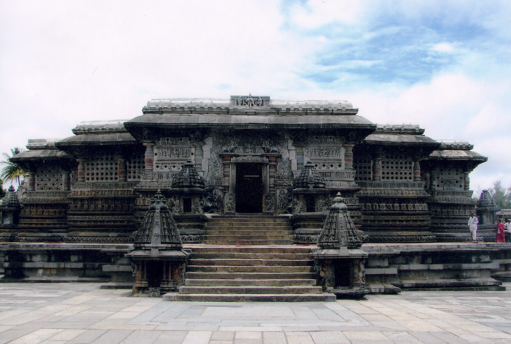 Chennakeshava Temple. Located in Belur, Karnataka, India.